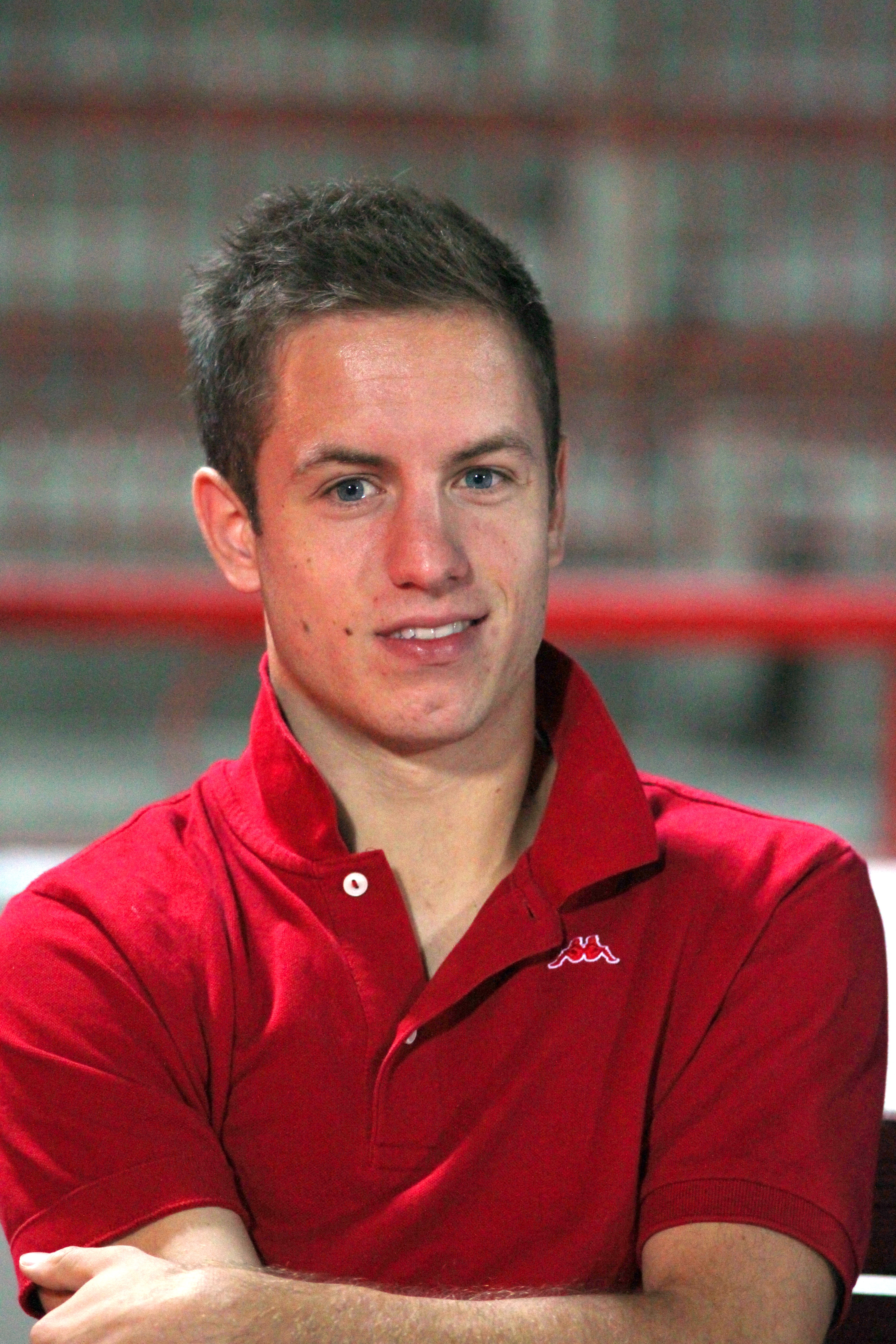 Saša Aleksander Živec (born 2 April 1991) is a Slovenian professional footballer, who plays for Bulgarian CSKA Sofia as a winger or second striker.